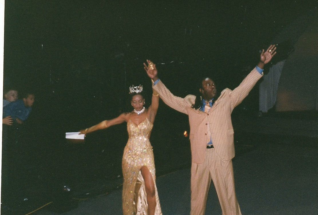 King Booker and Sharmell at SD! in Green Bay, WI. Sometime in 2006, I don't remember when exactly.